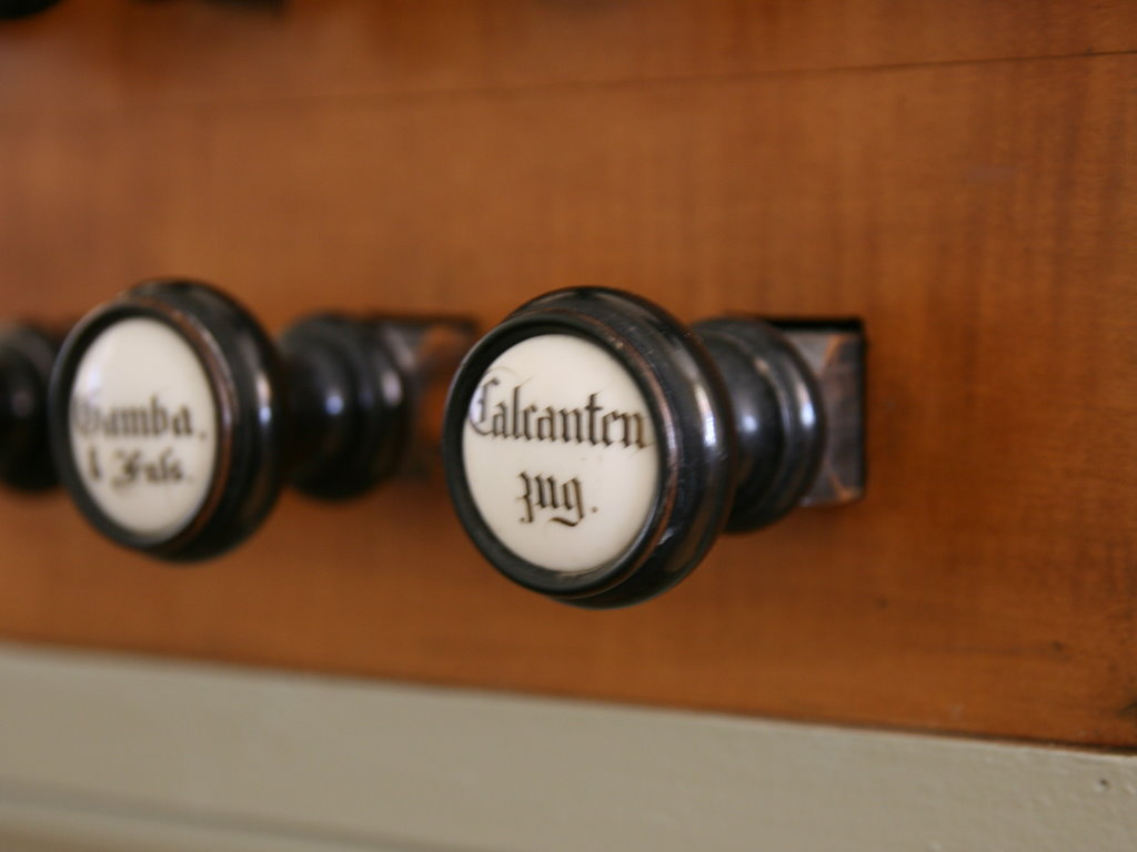 Calcanzzug on the table of the Ratzmann organ in the village church Pessin